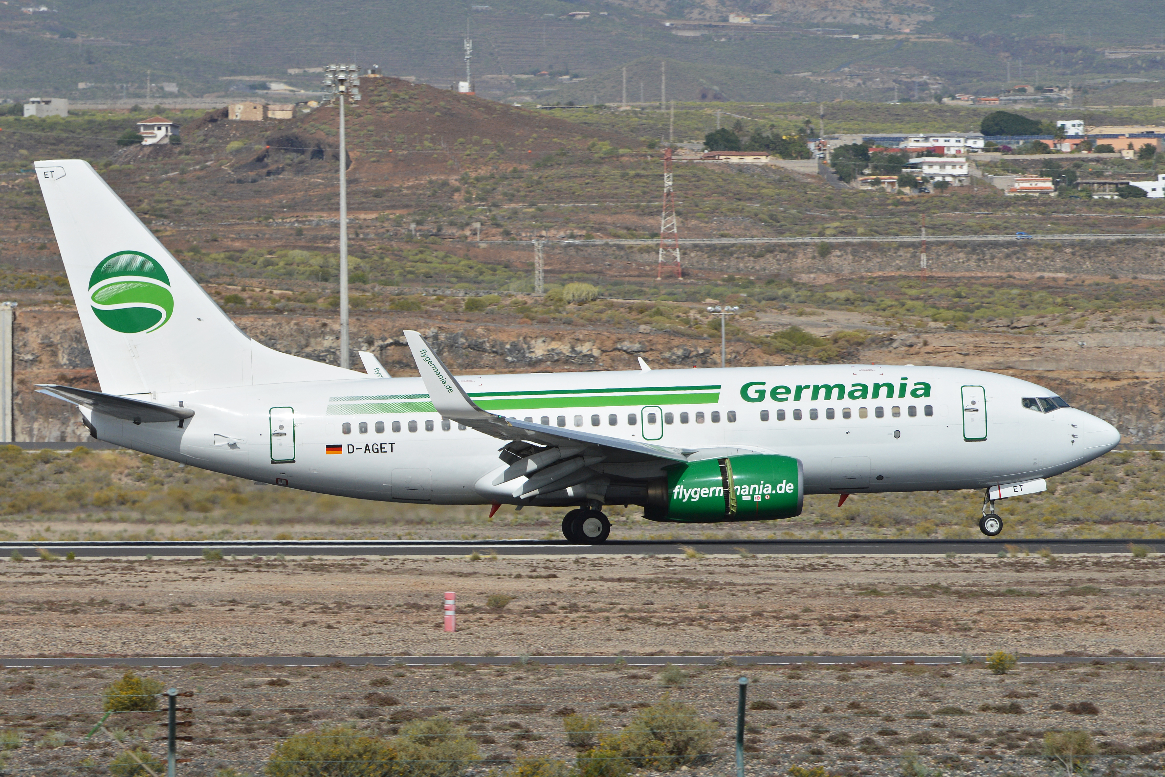 c/n 28109, l/n 31. Built 1998. Arriving on flight GMI2990 from Berlin Schönefeld. Tenerife South Airport, Canary Islands. 17-1-2016